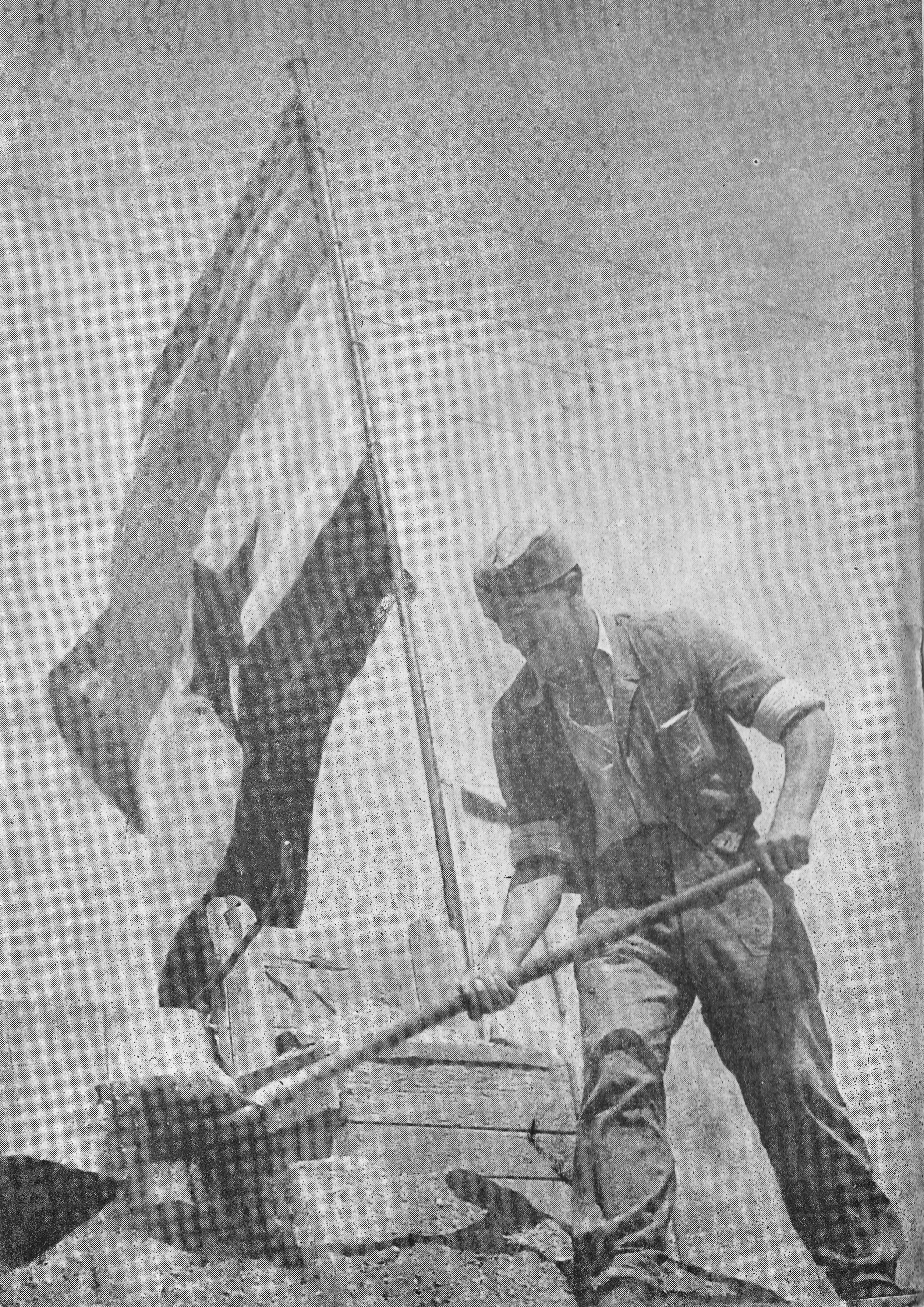 Pioneer on a building of New Belgrade (Yugoslavia 1948-1950)